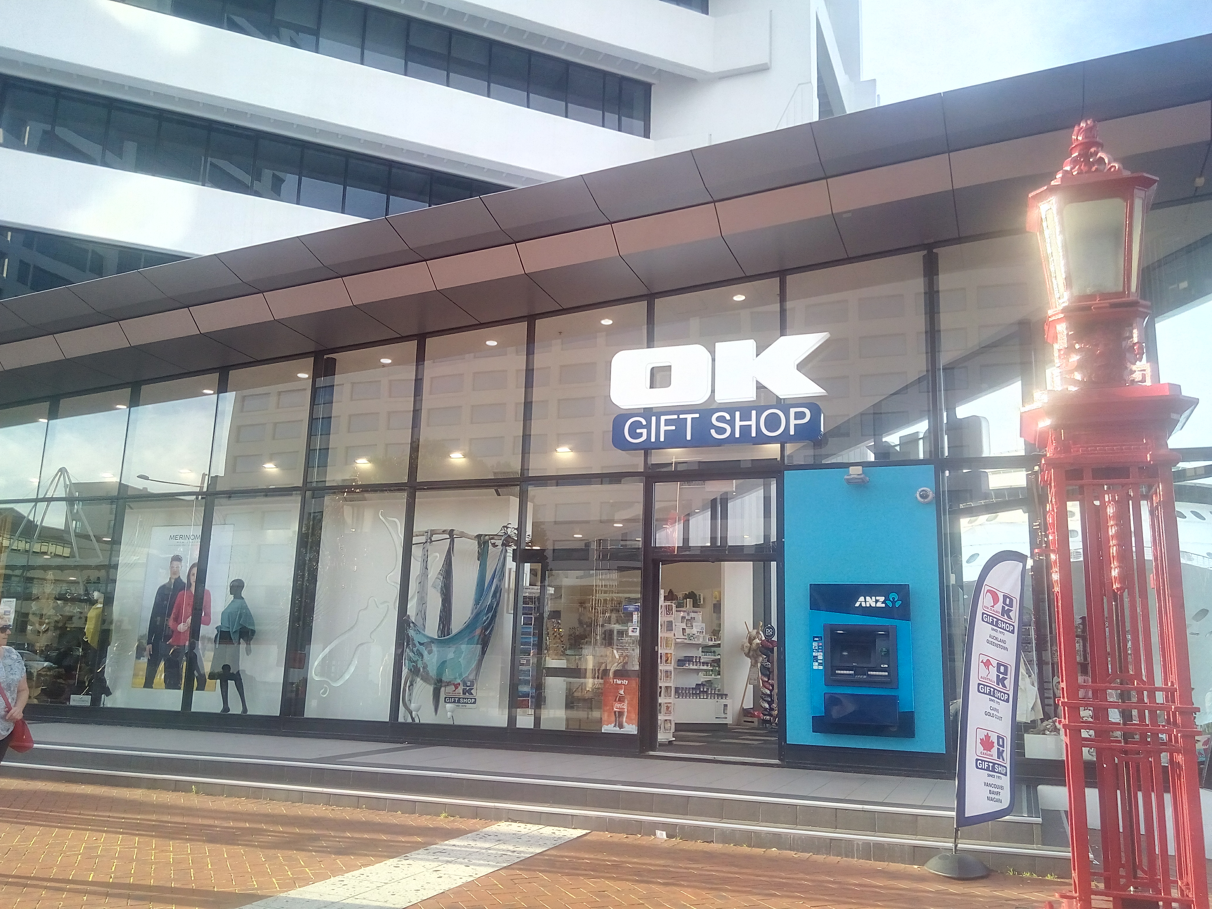 OK Gift Shop Auckland